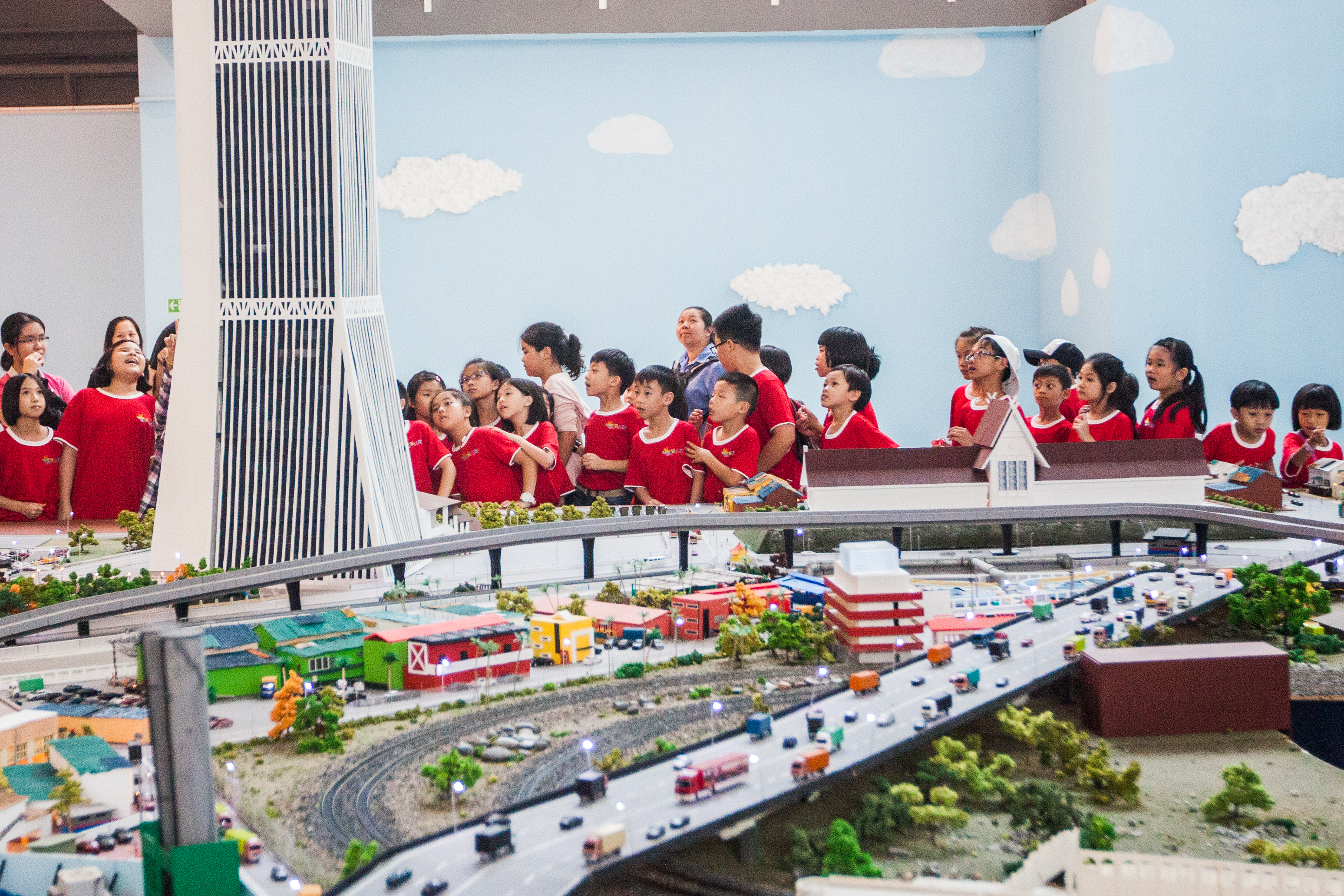 Children viewing MinNature exhibits upclose. School Excursion.